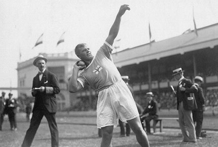 Evert Nilsson at the 1920 Olympics